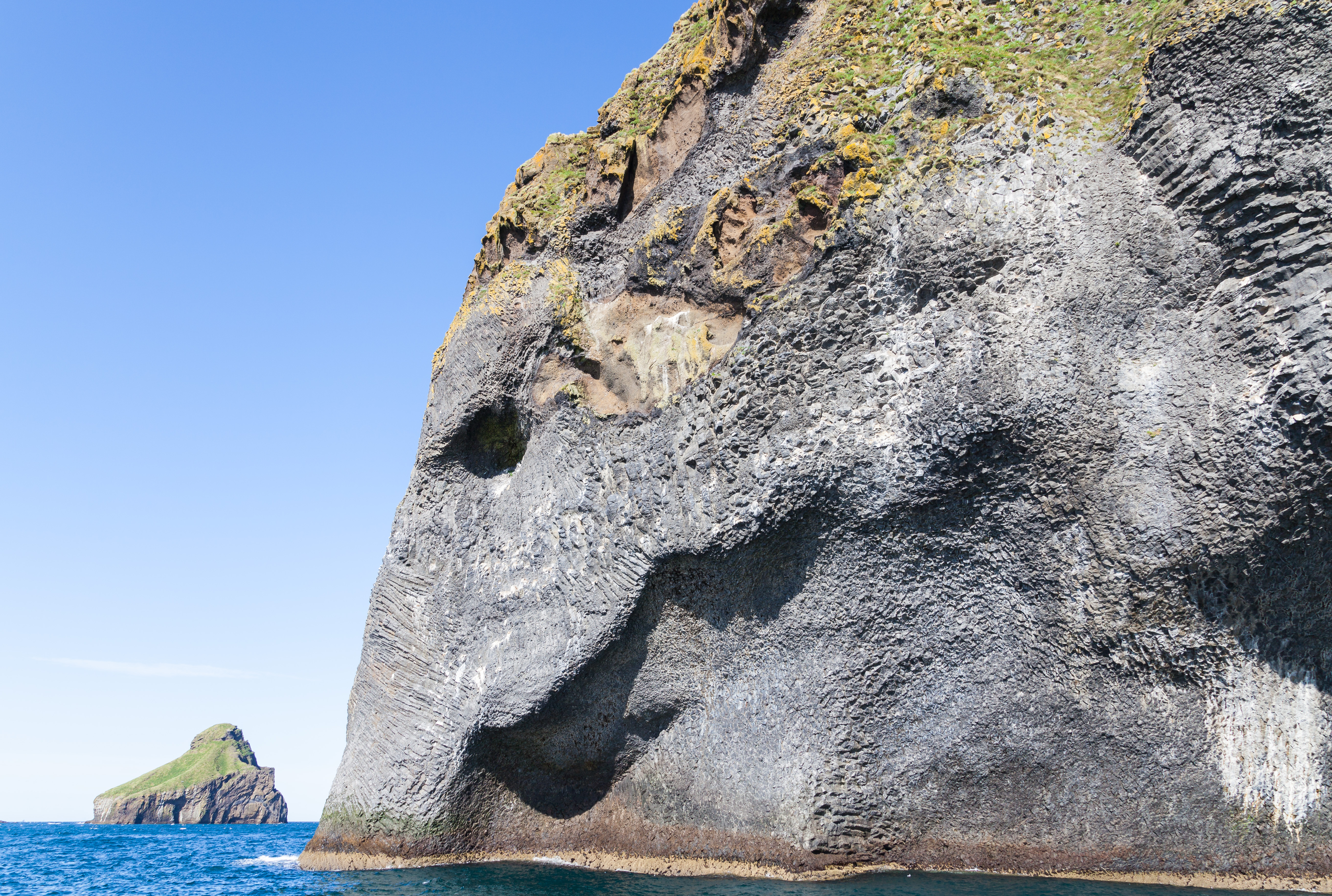 Elephant Rock, Heimaey, Westman Islands, Suðurland, Iceland